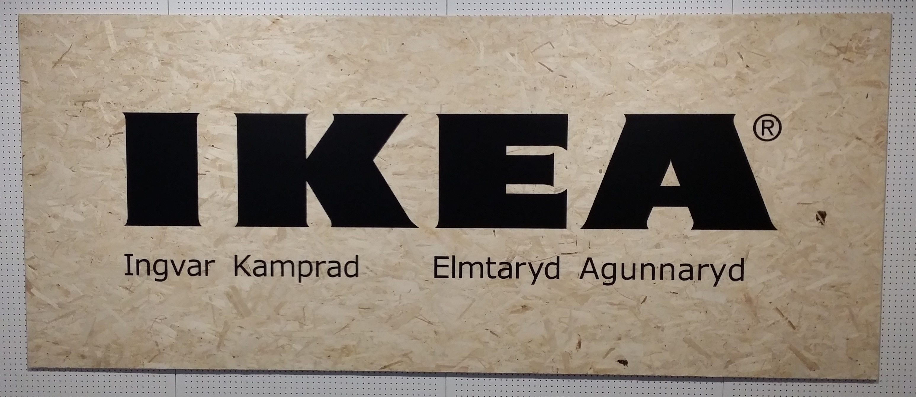 The IKEA acronym as displayed at the IKEA Museum in Älmhult, Sweden.